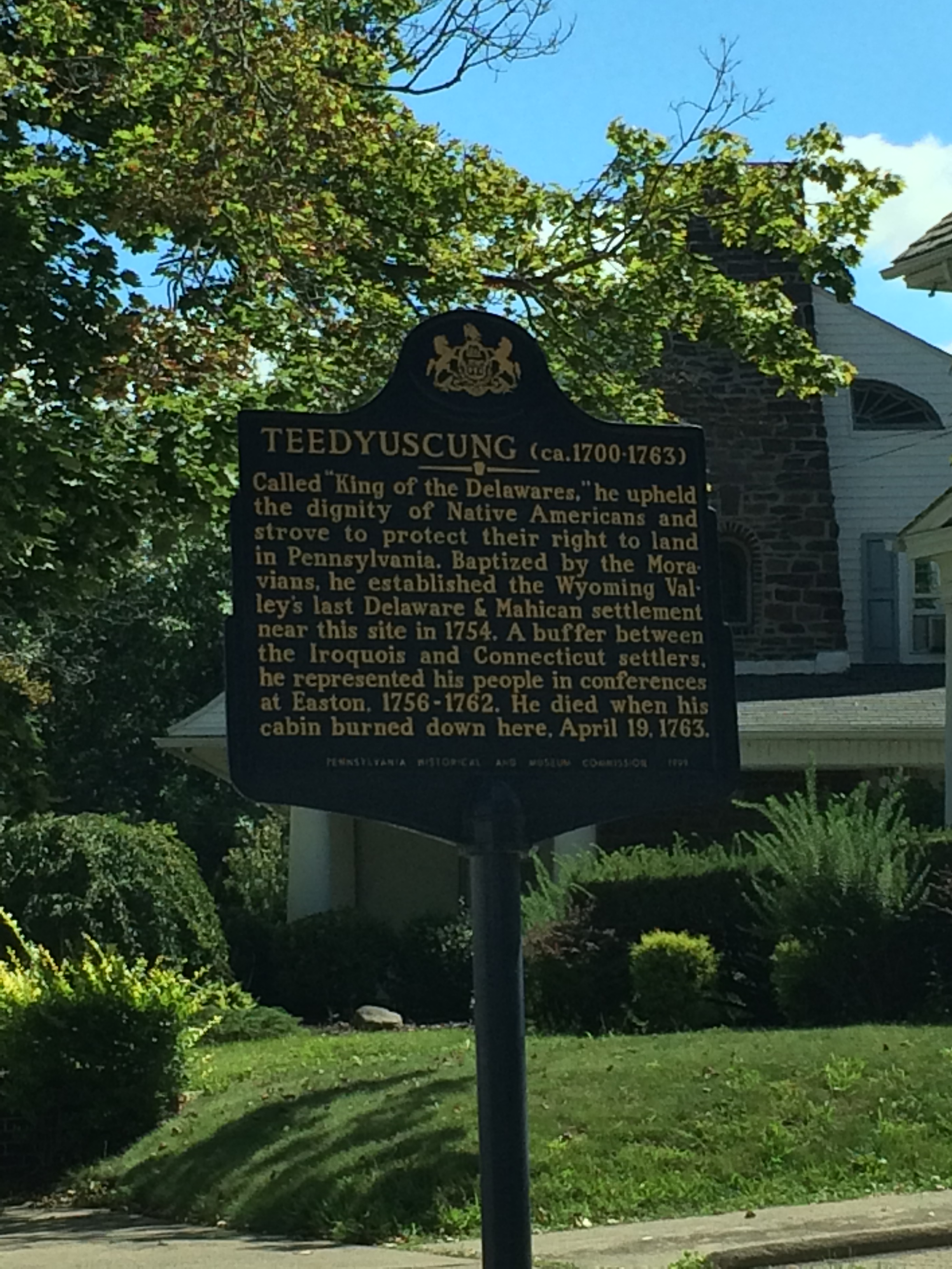 Historical sign located on Riverside Road in Wilkes-Barre, Pennsylvania dedicated to a Native American leader who resided there.